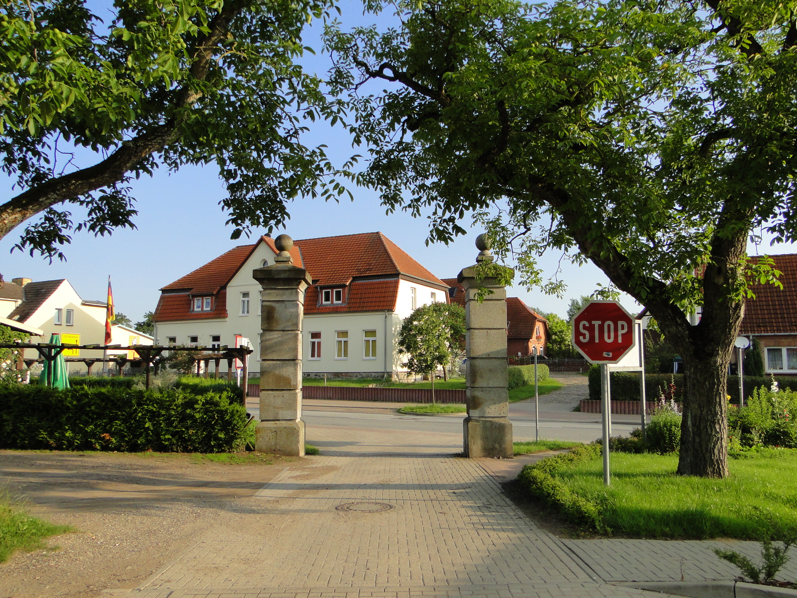 Posts at entrance of manor in Roggendorf, district Nordwestmecklenburg, Mecklenburg-Vorpommern, Germany